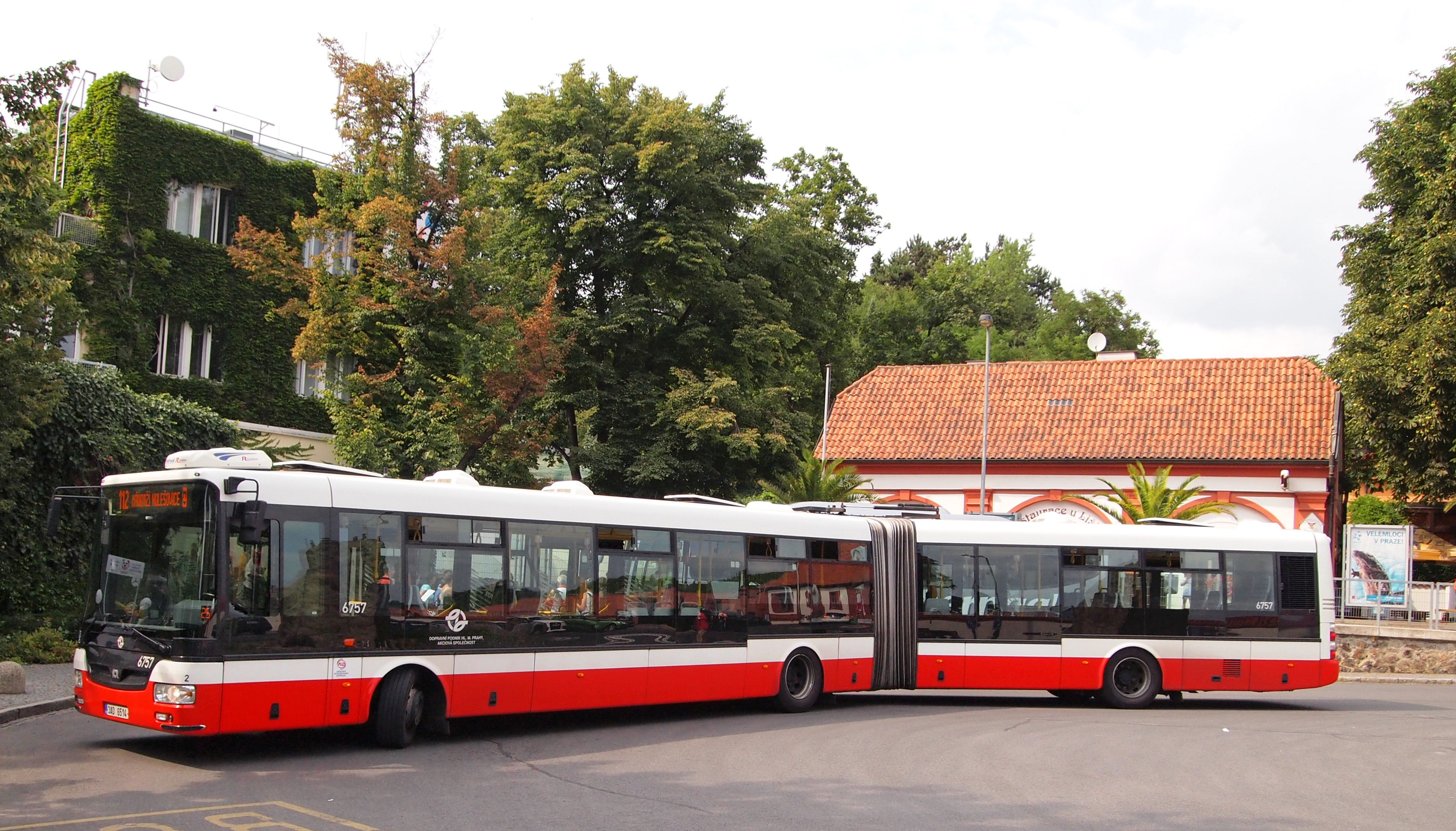 Bus number 112 next to the Prague Zoo. This photograph was taken with an Olympus E-PL1